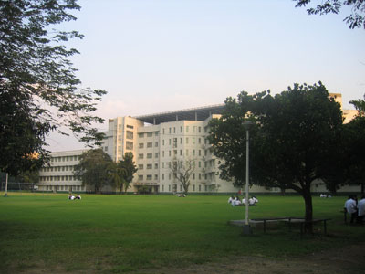 The picture of Tan Yan Kee Building in University of the East Caloocan campus. It was built in 2003. It caters the different colleges of the campus. I took the picture on November 11, 2005.